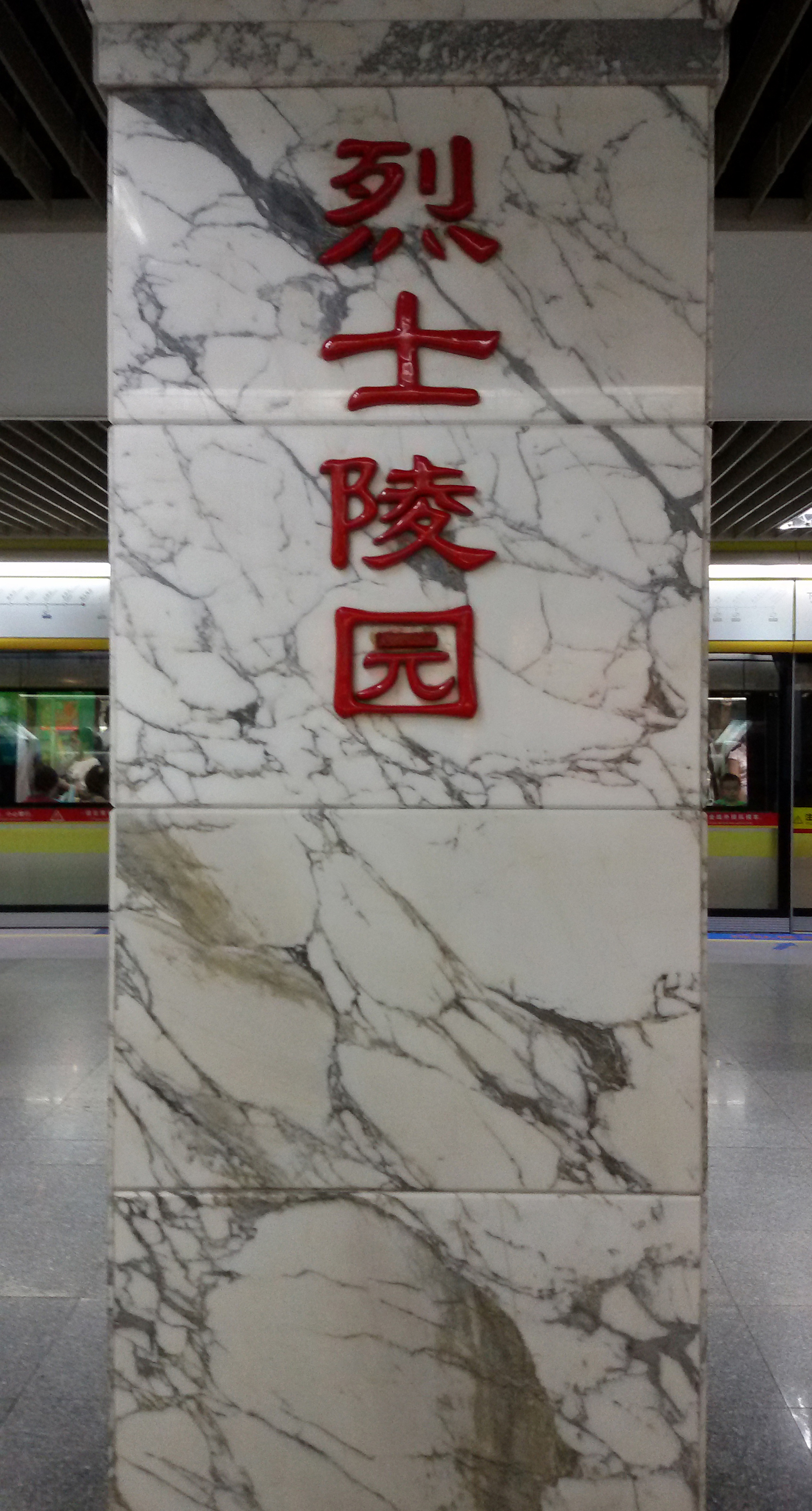 WORD on PILLAR for Martyr's Park Station, Guangzhou Metro 粵語: 烈士陵園站嘅柱上面啲字